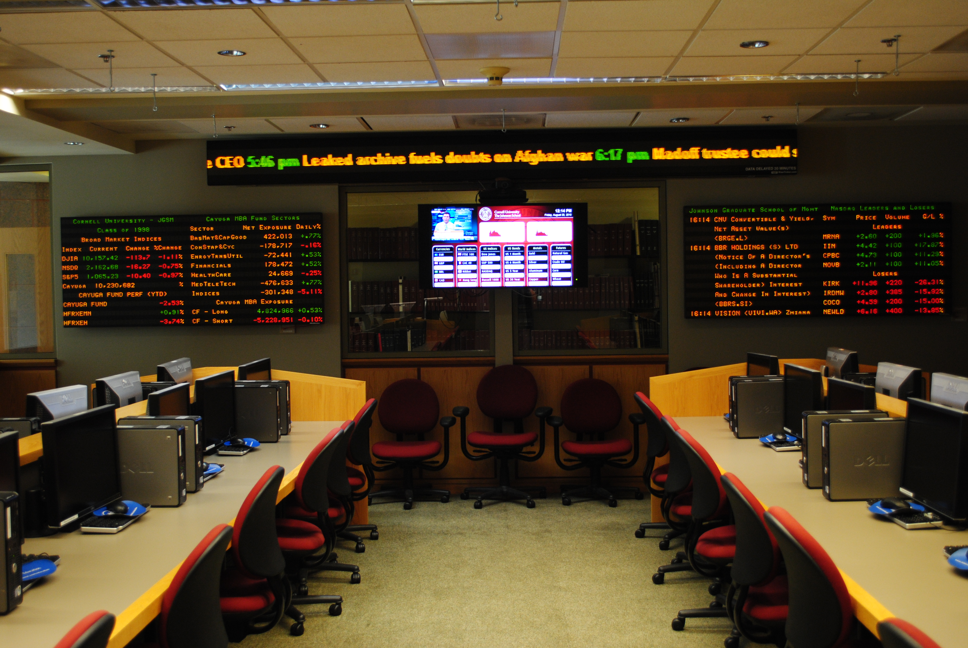 Boas Trading Room, Parker Center for Investment Research, Johnson School (Sage Hall), Cornell University